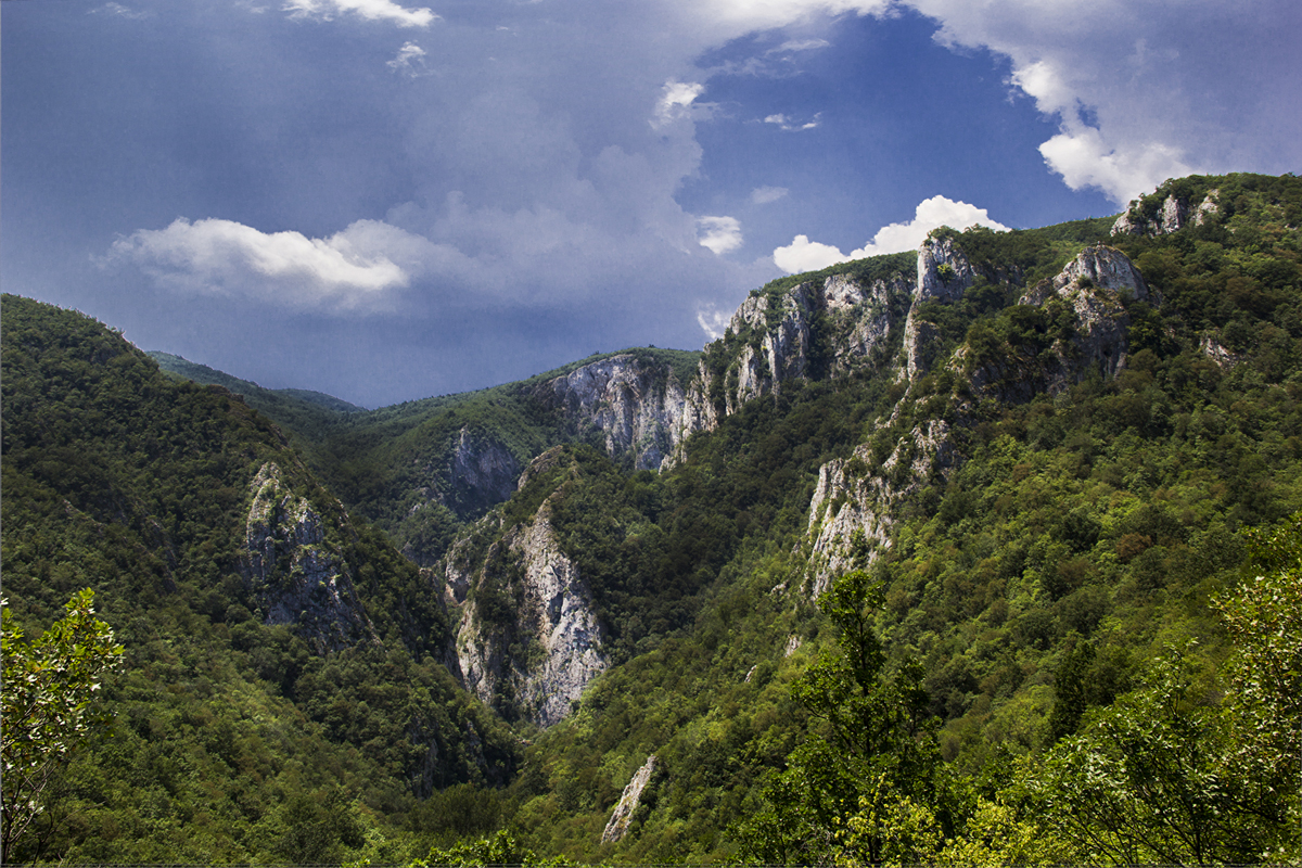 Kanjon Lazarev Ово је фотографија заштићеног природног добра у Србији под шифром: СП245 This is a a photo of a natural area in Serbia with ID: СП245